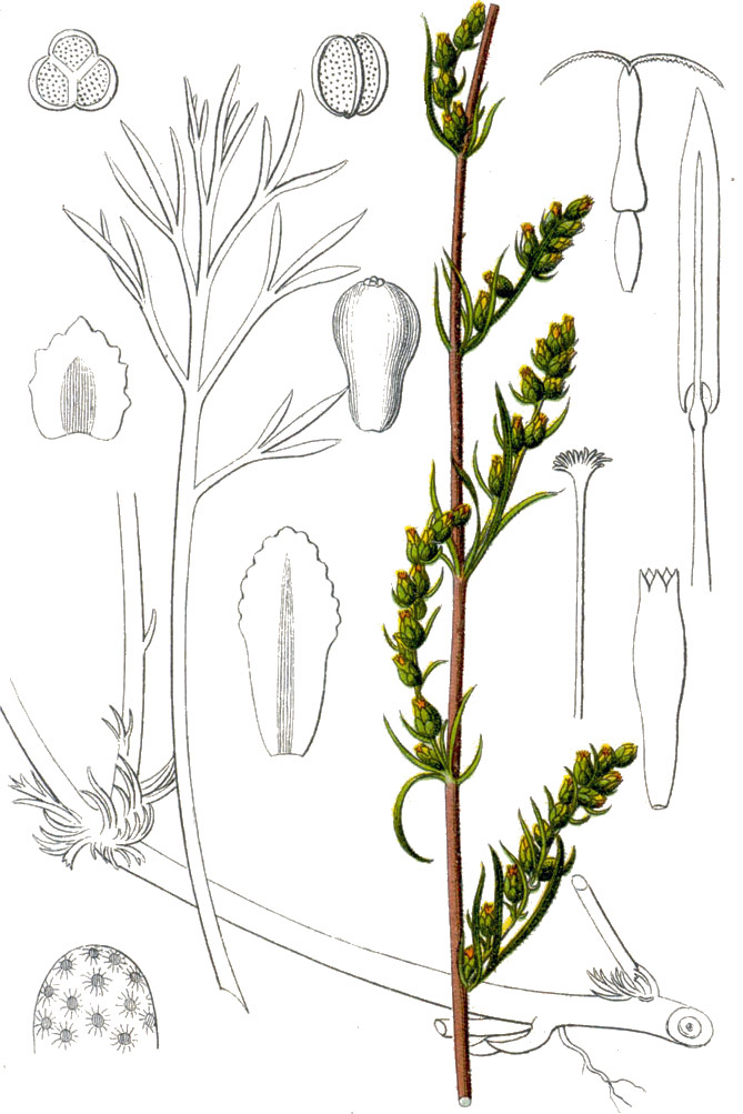 Artemisia campestris L. Original Caption Feld-Beifuss, Artemisia campestris